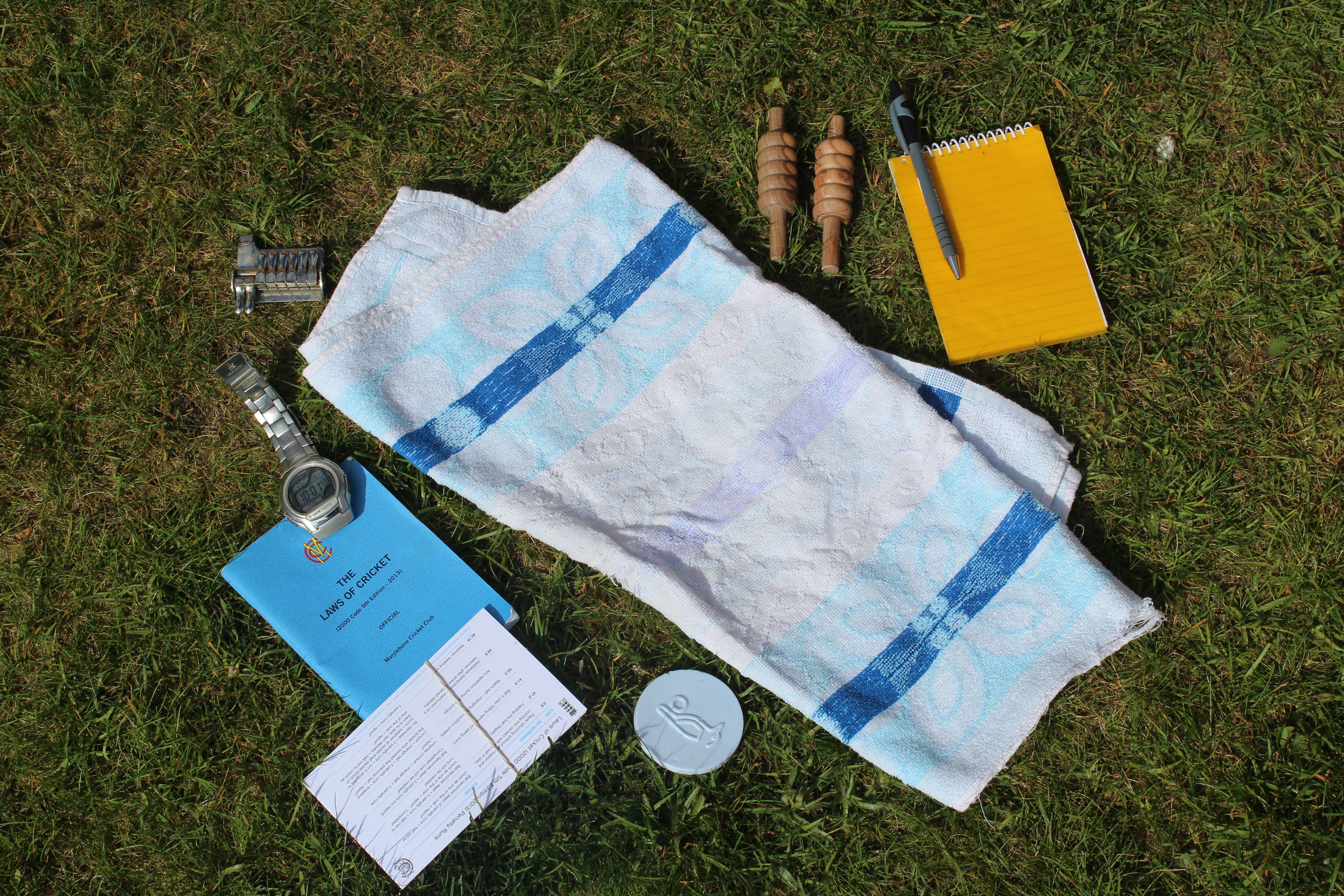 The minimum personal equipment on-field equipment for a competant cricket umpire as per "Tom Smiths Cricket Umpiring and Scoring"[1]. The equipment is: Ball Counter (Counter in illustration is a 1960's model which is suitable for both 6 and 8-ball overs) Watch Pencil and paper (Notebook in the illustration) MCC Law book Competion rules (ECB directives shown in the illustration) Bails Bowler's marker Cloth (for drying a wet ball)